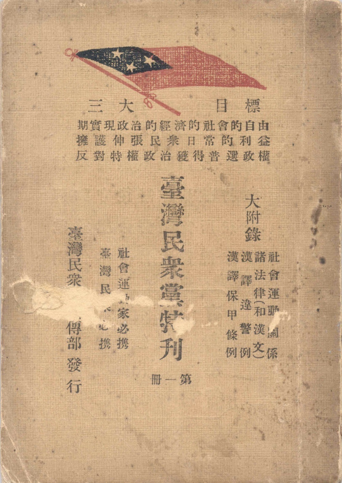 Magazine published by Taiwanese People's Party